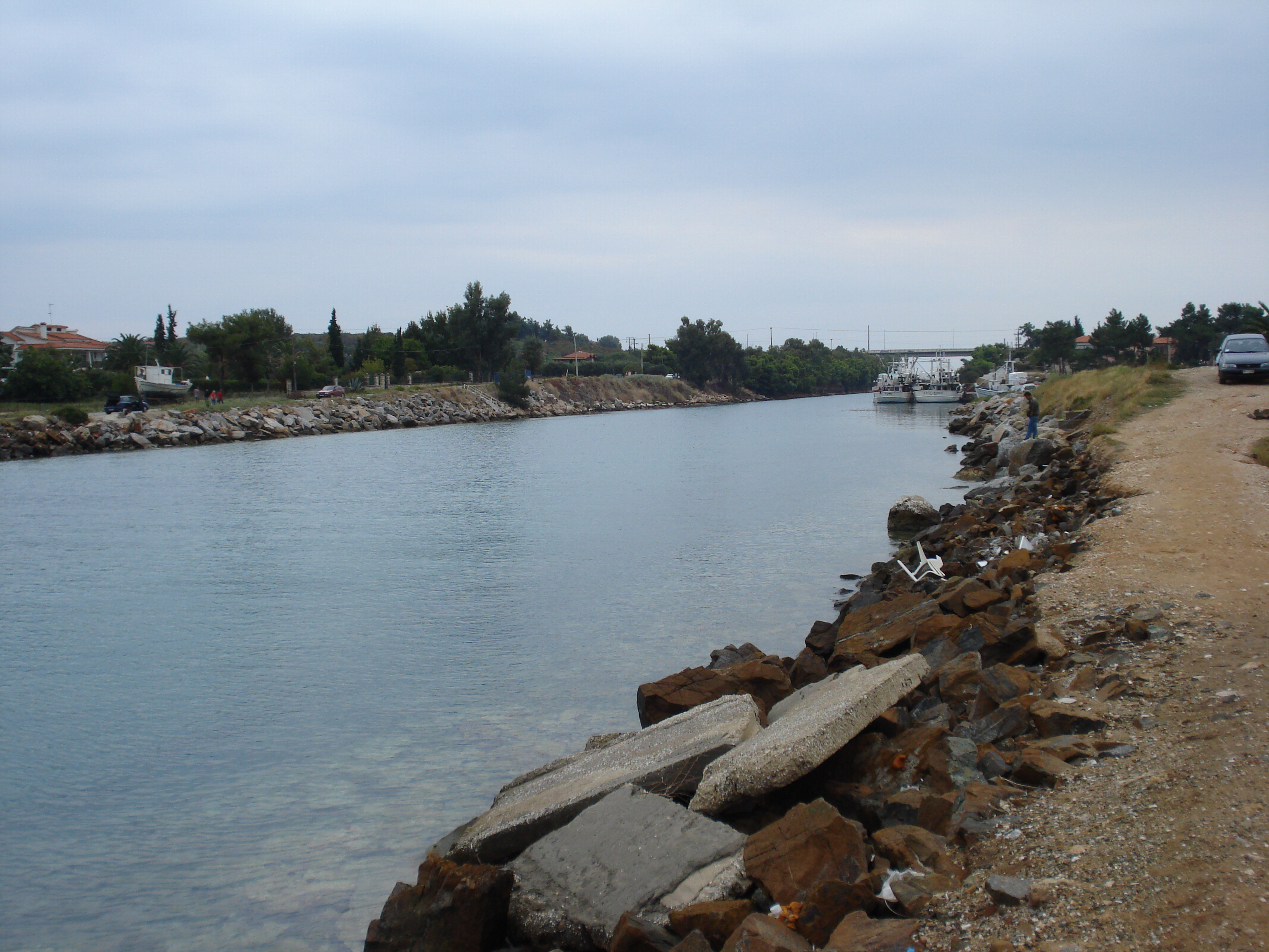 Nea Potidea canal